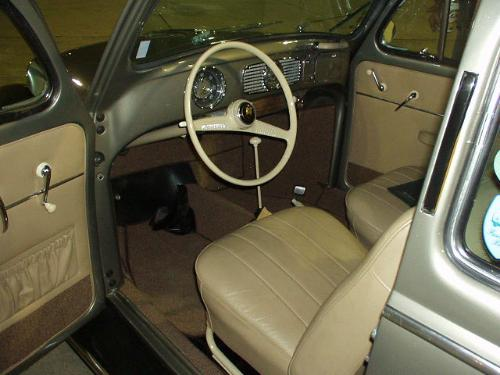 Interior of a Volkswagen Beetle from 1974.